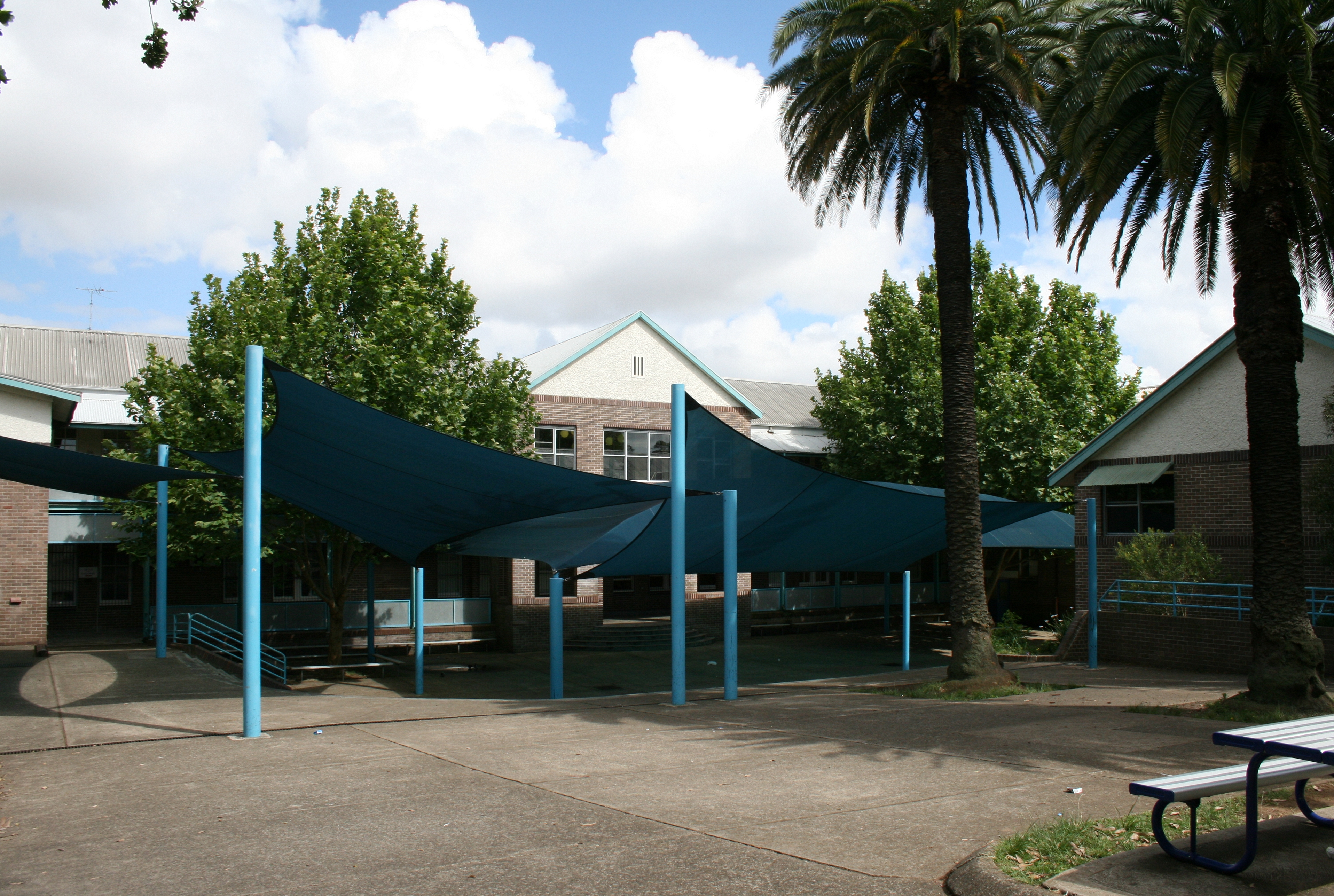 Courtyard near the main buildings of Canterbury Boy's High School in Canterbury, New South Wales (NSW), Australia.